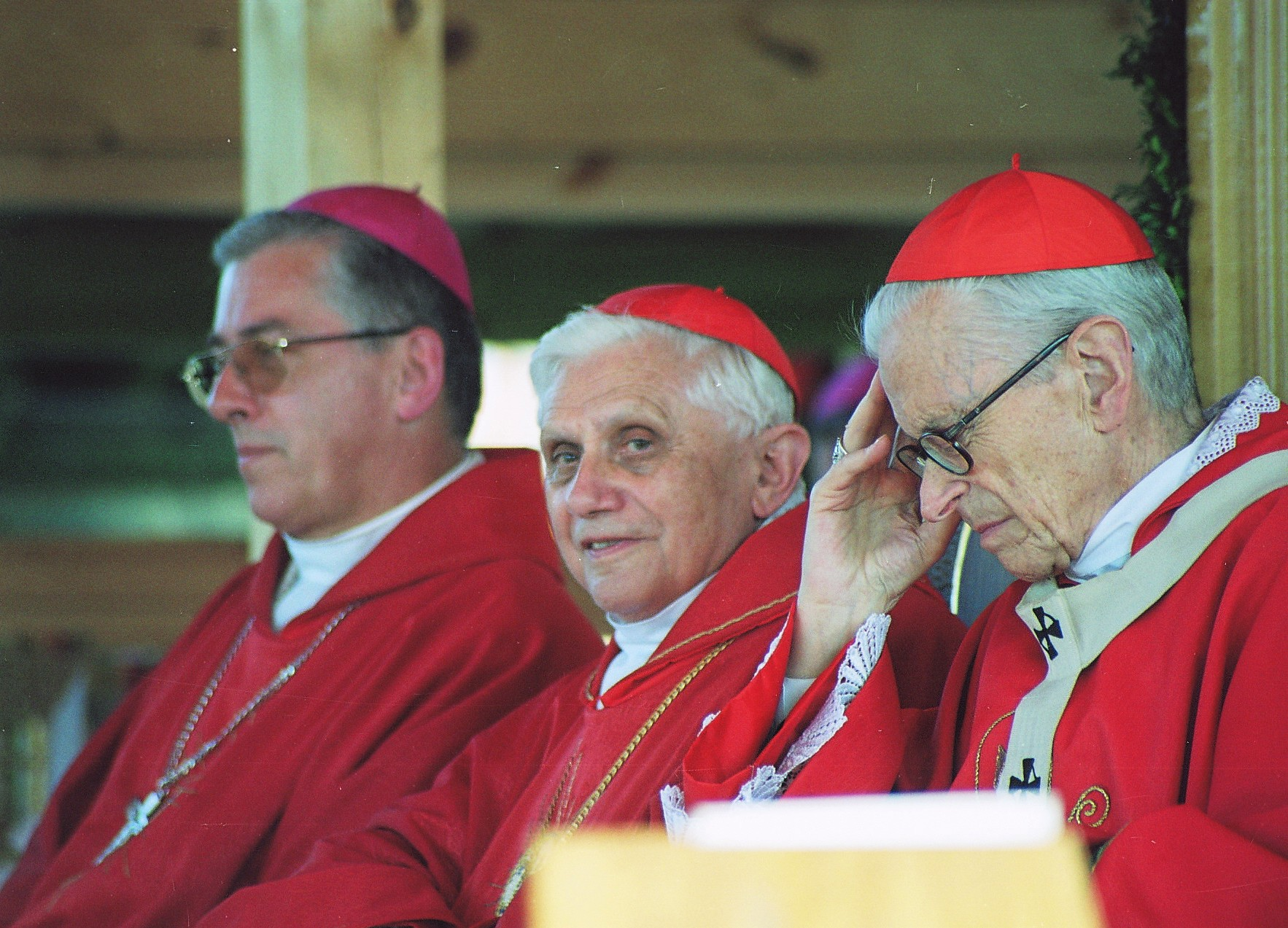 From left to right are Bishop Wiktor Skworc, Cardinal Joseph Ratzinger (Pope Benedict XVI since 2005) and Cardinal Franciszek Macharski on May 10, 2003, during the celebration of the 750th anniversary of the canonization of Saint Stanislaus in Szczepanów, Poland. Picture taken by Marian Lambert and released under CC-BY license by Szamil (